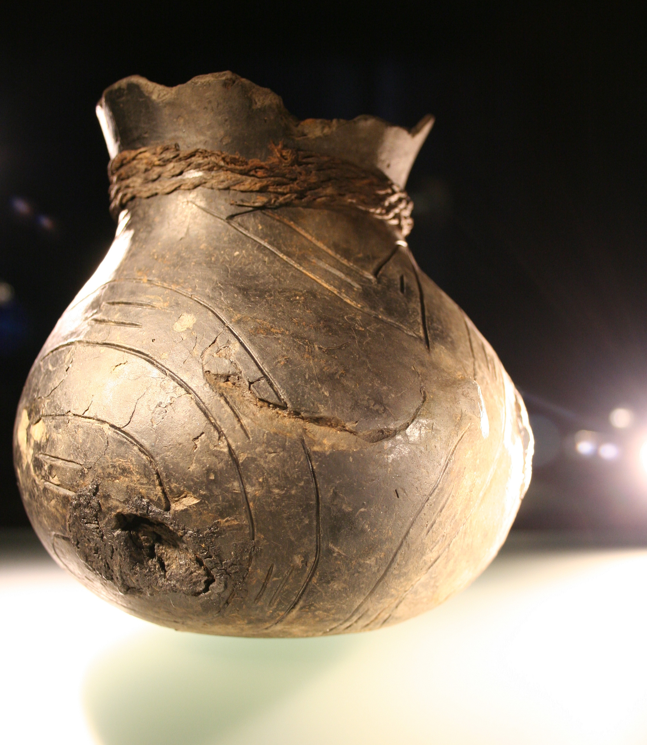 Bottle with cord wrapping, found inside the Linear Pottery culture well 22 at the former municipality of Eythra, now surface mine Zwenkau, Leipziger Land